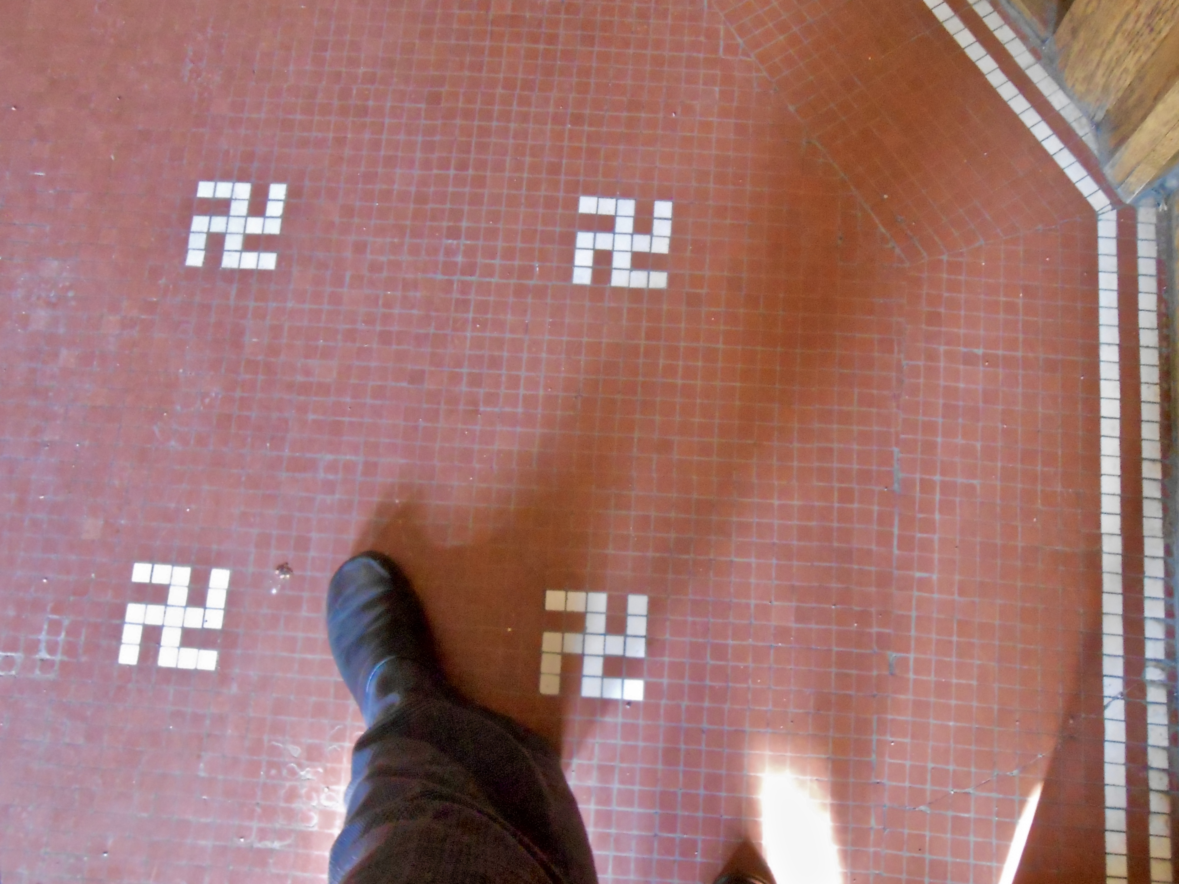 Montana Club building, 24 W. 6th Helena, MT Built in 1905, building is part of the Helena Historic District on NRHP and houses a private club first established in 1885. The original building, built beginning in 1891, burned in 1903 and the current structure was rebuilt using the original first floor as a base. Inside entryway showing clockwise sauwastika mosaics, first installed when original building was constructed prior to 1900, and intended to represent a Native American symbol for good fortune at the time. Due to later association with the Nazi swastika, the Club added explanatory comments on the door nearby. See File:Description_of_mosaics,_Montana_Club,_Helena,_Montana_14.jpg